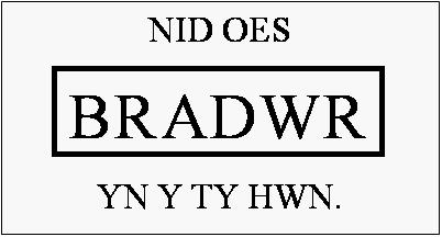 jpeg file created by Hogyn Lleol 7.9.2006